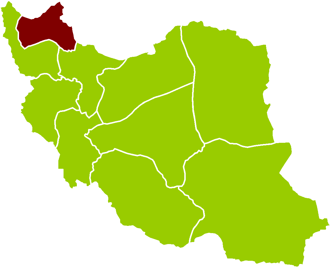 Third province of Iran